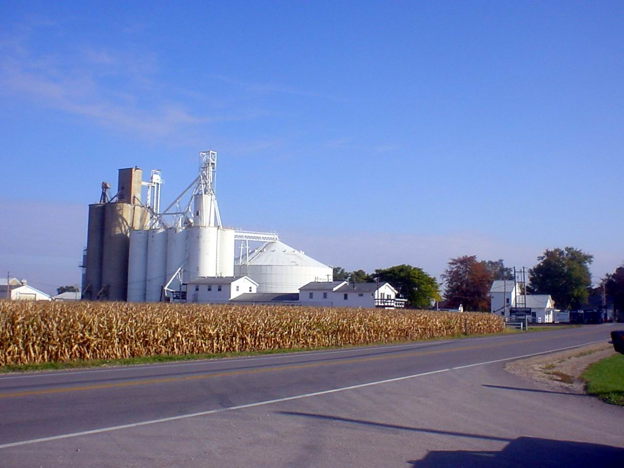 Skyline of Kileville, showing grain elevator.